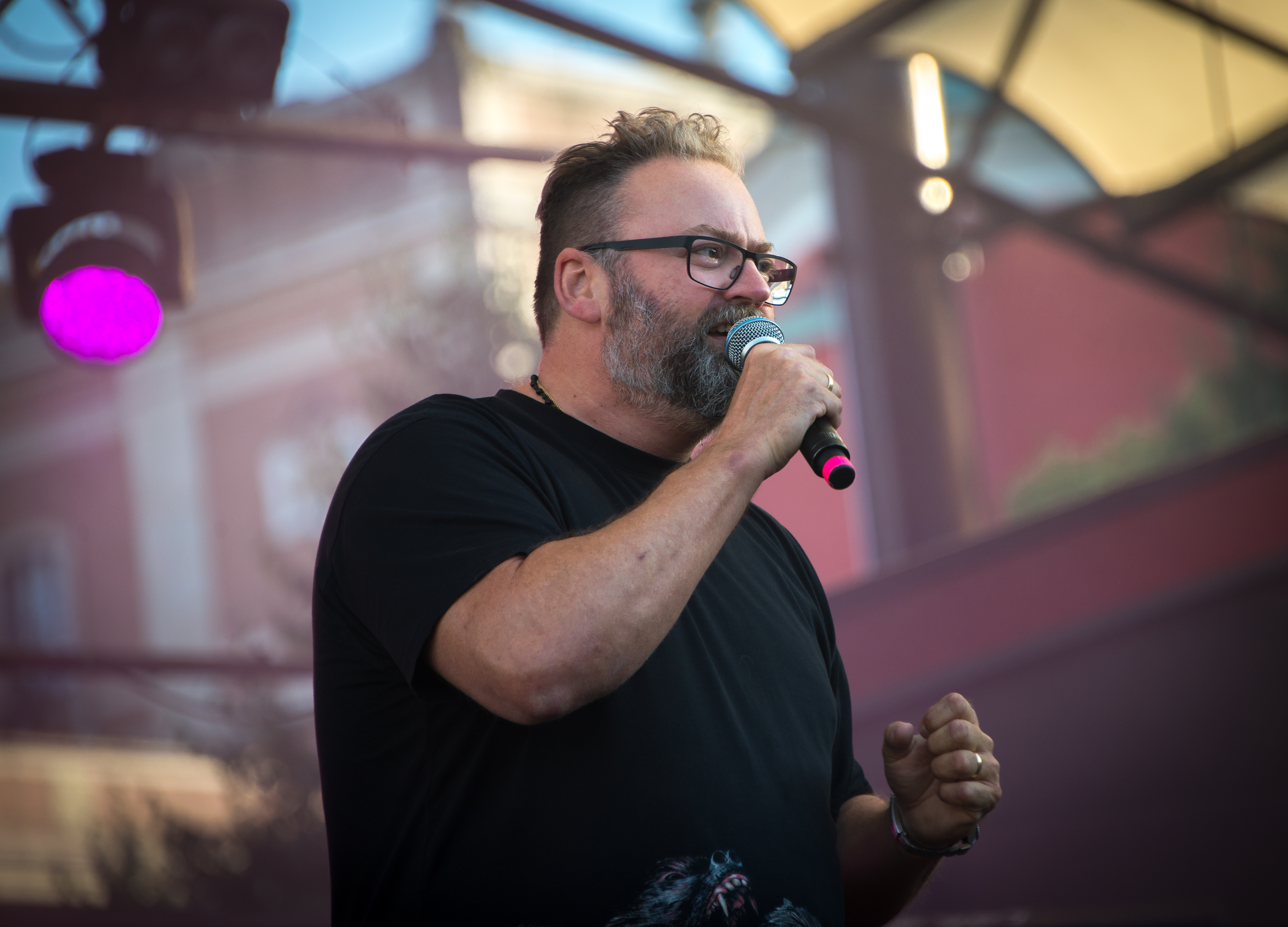 Adam Alsing during the RIX FM Festival 2016 in Kungsträdgården in Stockholm.